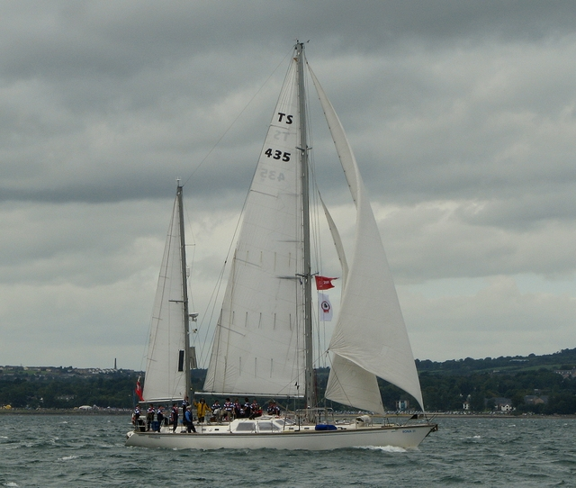 'Rona II', Tall Ships Belfast 2009. Ketch 'Rona II' in Belfast Lough as part of the 'Parade of Sail' to mark the end of the Tall Ships event in Belfast. The 'Rona II' was built in 1990 and is operated by the Rona Sailing Project as a sail training vessel for young people.